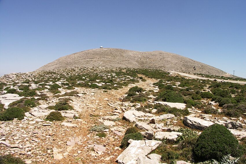 Ataviros mountain, Rhodes Island, Greece